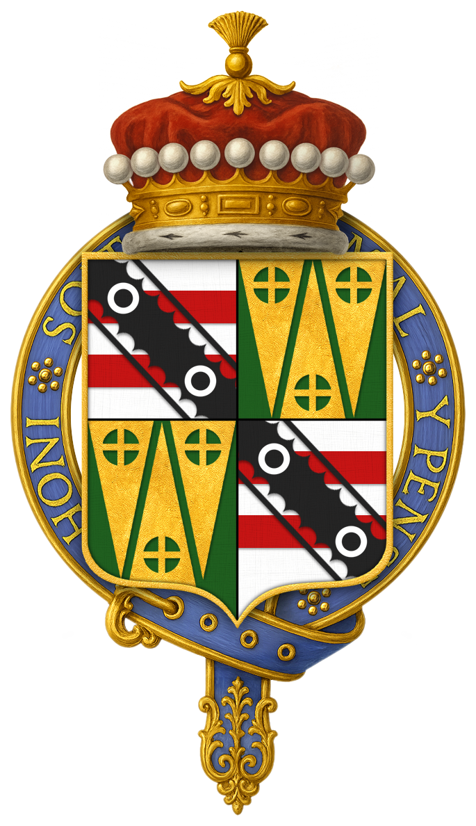 Coat of Arms of Derick Heathcoat-Amory, 1st Viscount Amory, KG, GCMG, TD, PC, DL, OD